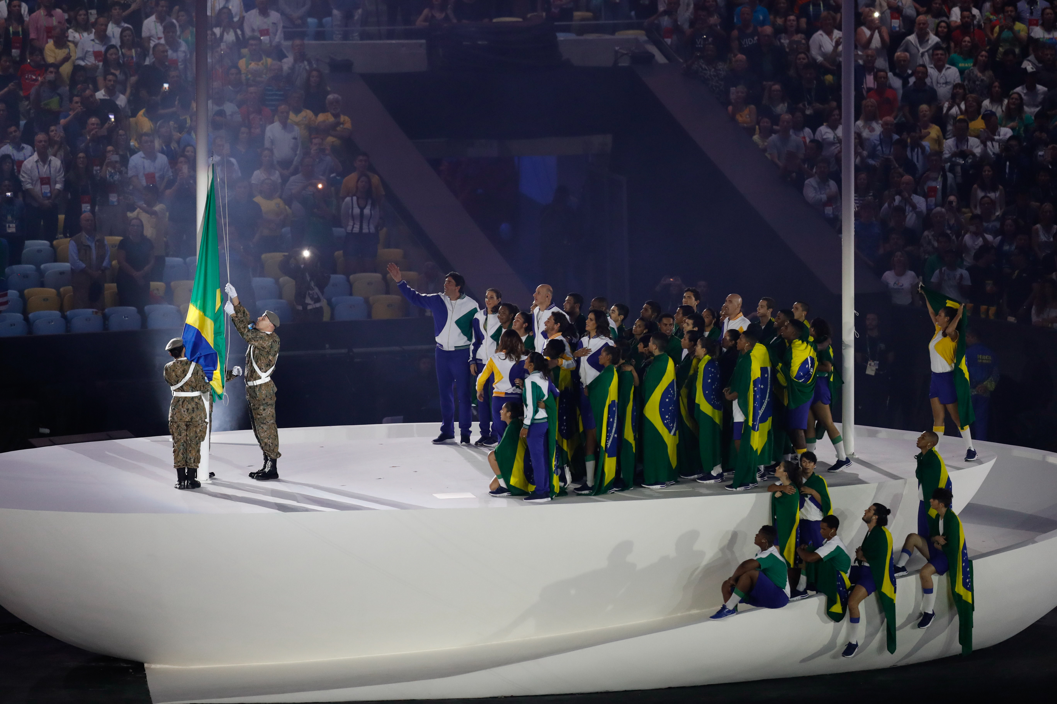 Rio de Janeiro - Cerimônia de abertura dos Jogos Olímpicos Rio 2016 no Estádio do Maracanã. (Fernando Frazão/Agência Brasil)